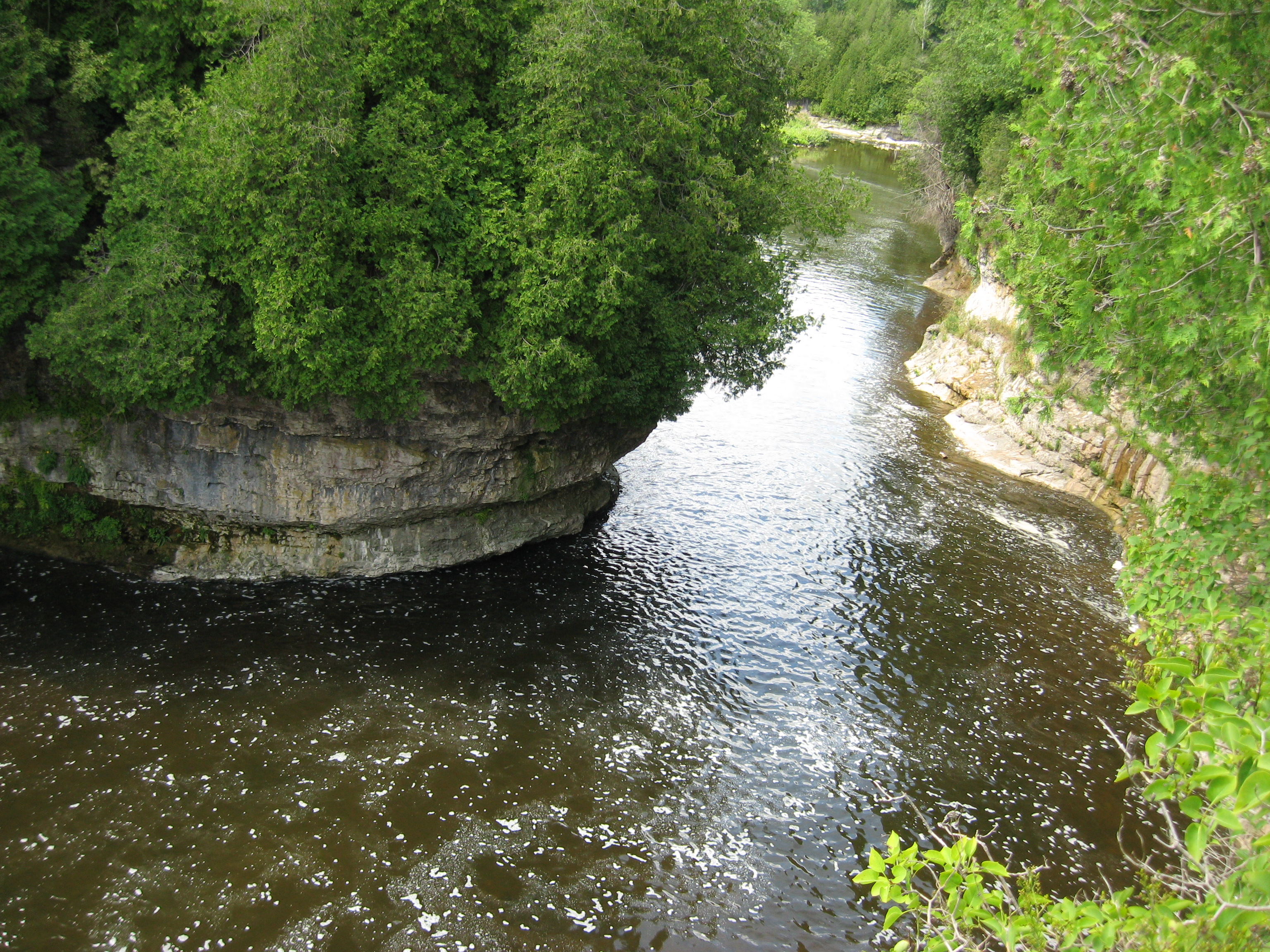 Elora Gorge in August